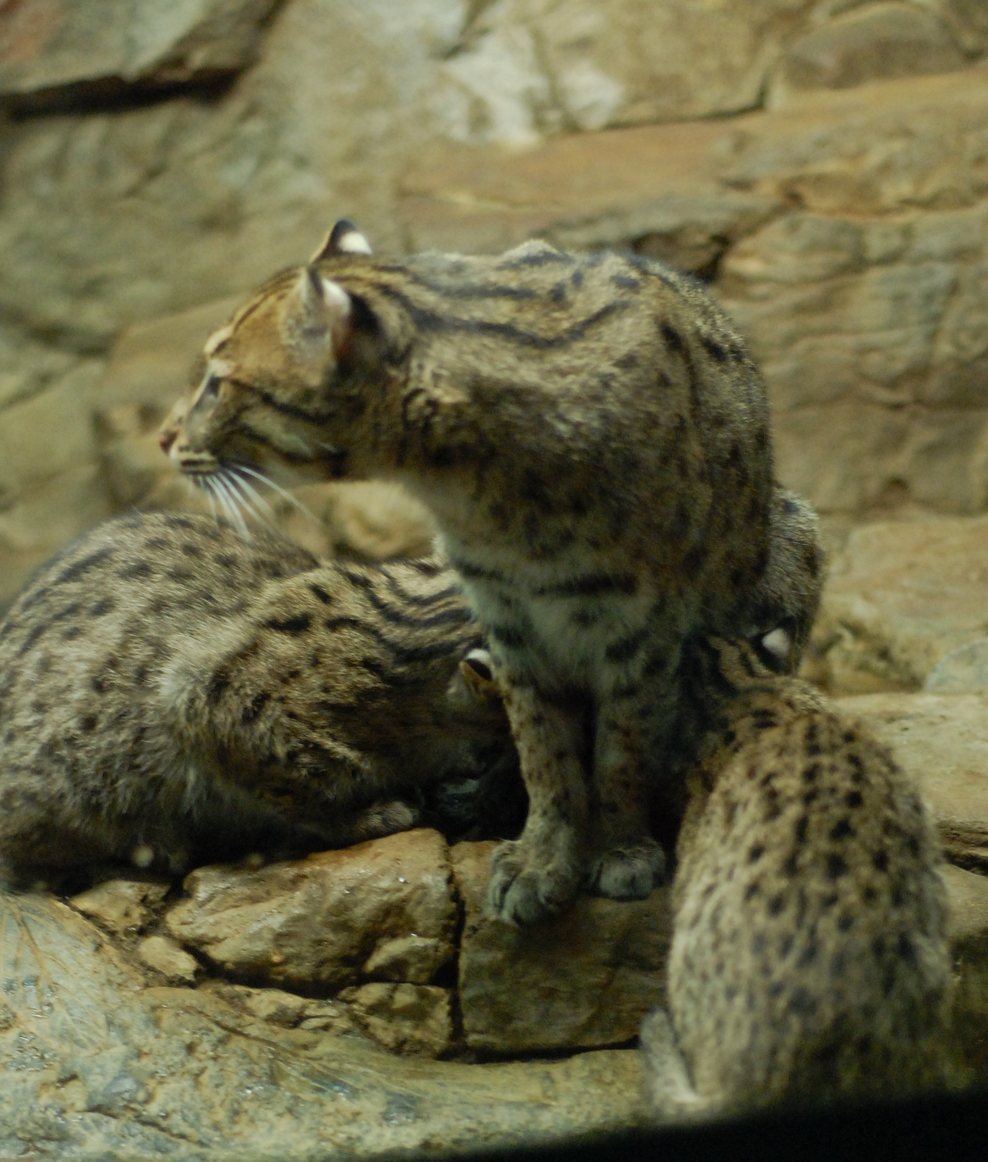 Fishing cat and her family at Cincinnati Zoo. I was asked if this picture could be used in an algebra tutoring program. Neat!